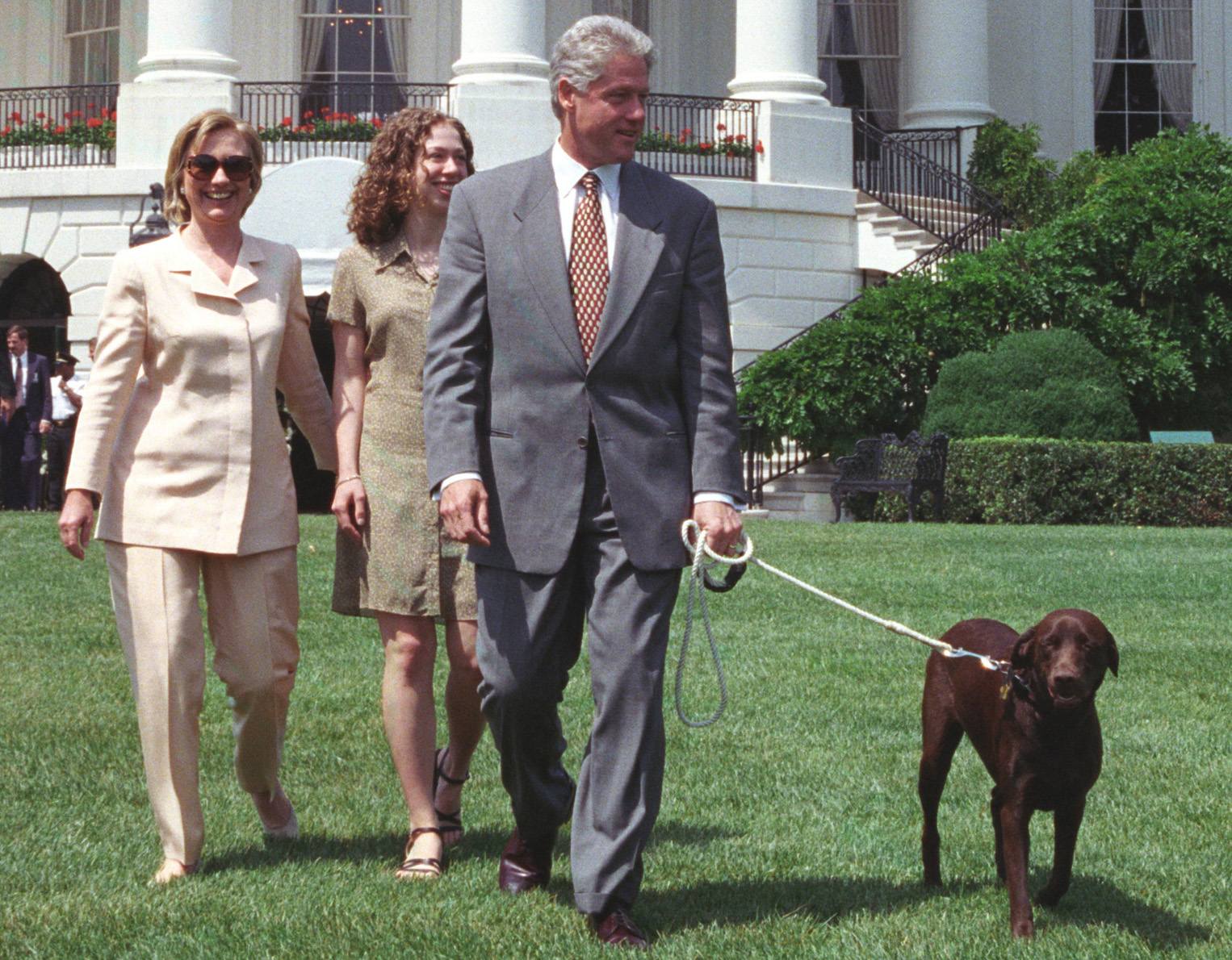 Title: Photograph of President William Jefferson Clinton, First Lady Hillary Rodham Clinton, Chelsea Clinton, and Buddy the Dog Walking on the South Lawn: 07/24/1998 Creator: President (1993-2001 : Clinton). White House Photograph Office. (01/20/1993 - 01/20/2001) Types of Archival Materials: Photographs and other Graphic Materials Contacts: William J. Clinton Library (NLWJC), 1200 President Clinton Avenue, Little Rock, AR 72201. Phone: 501-244-2877; Fax: 501-244-2881; Production Dates: 07/24/1998 From: Series: Photographs Relating to the Clinton Administration, compiled 01/20/1993 - 01/20/2001 Collection WJC-WHPO: Photographs of the White House Photograph Office (Clinton Administration), 01/20/1993 - 01/20/2001 Persistent URL: Access Restriction(s): Unrestricted Use Restriction(s): Unrestricted